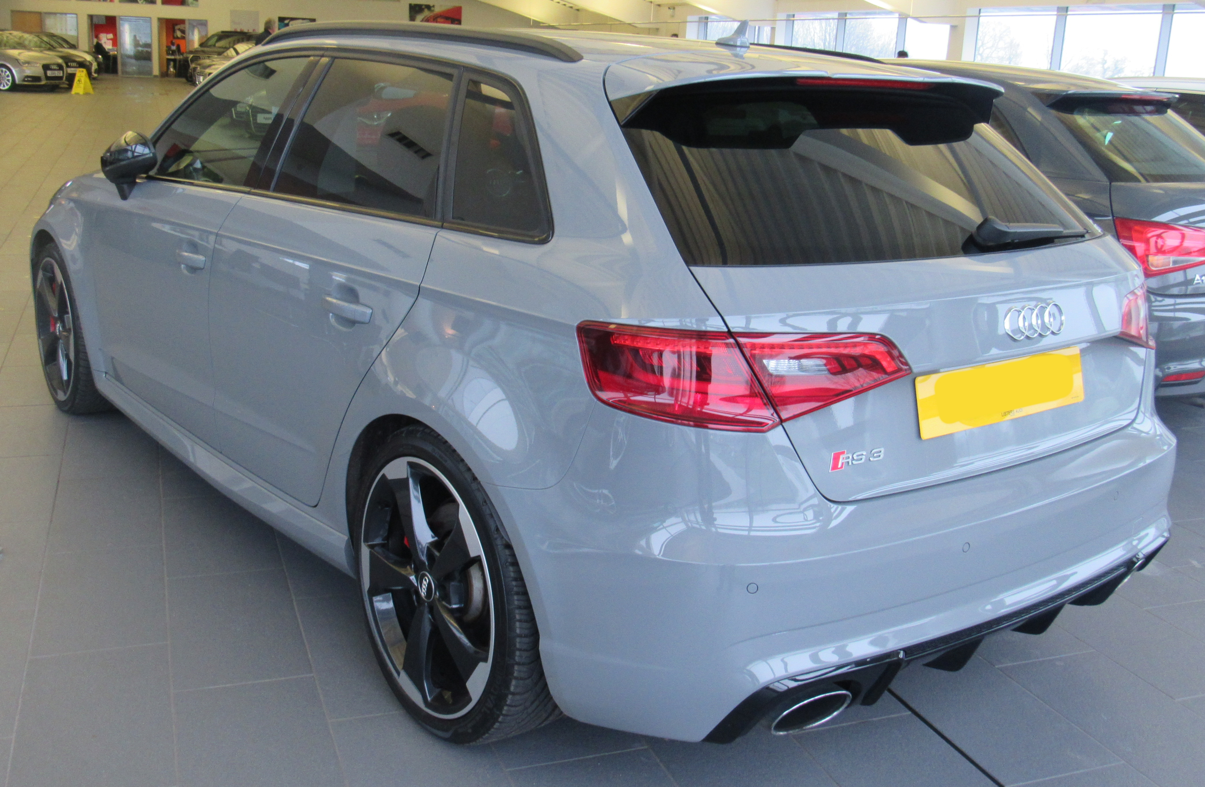 2016 Audi RS3 Sportsback NAV Quattro S-A 2.5 Rear Taken in Listers Birmingham Audi, Shirley, Solihull